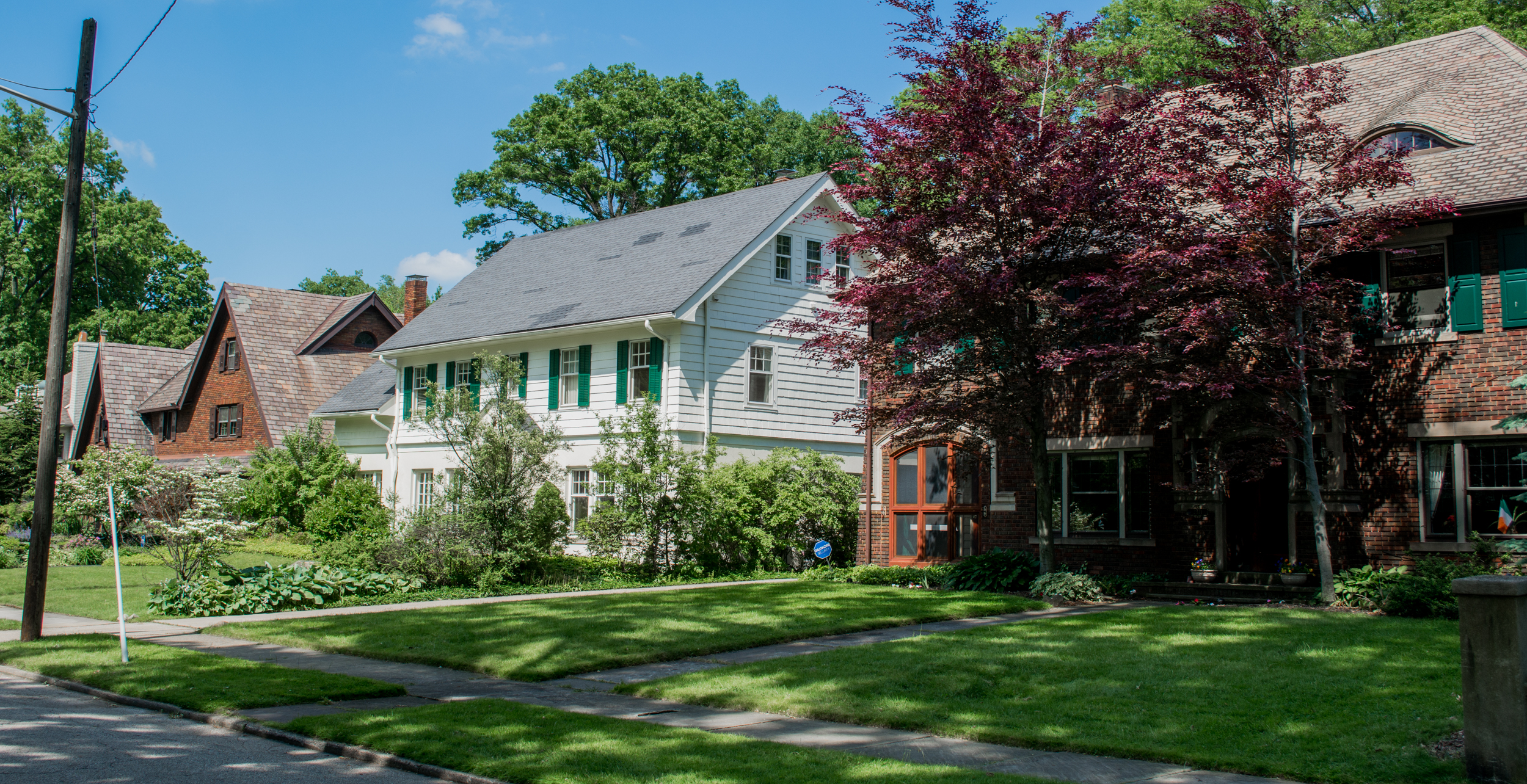 2300 block of Woodmere Drive in Cleveland Heights, Ohio, in the United States. The street is located within the Euclid Golf Allotment, a planned community on the National Register of Historic Places.